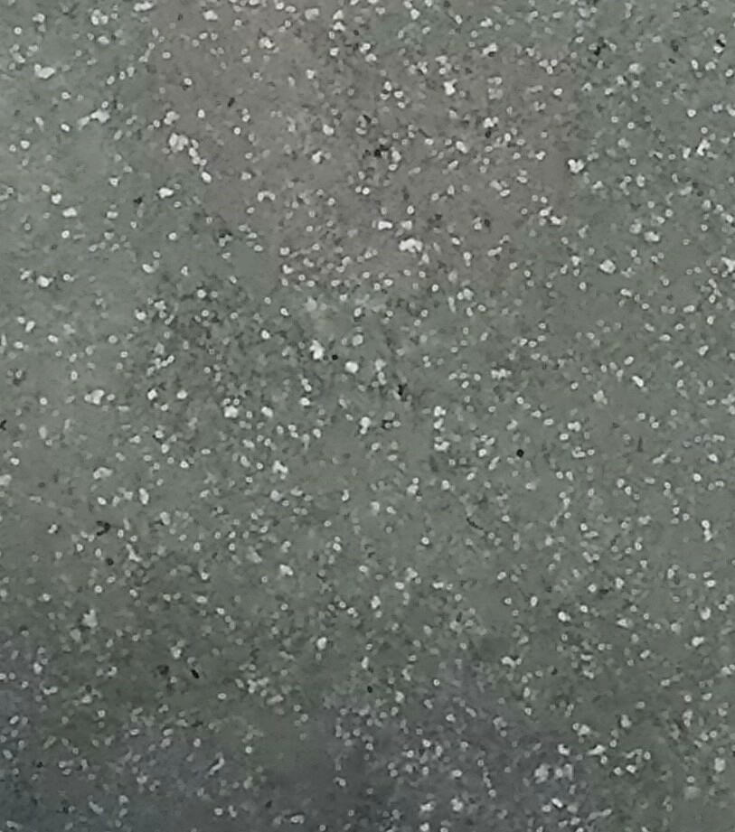 本小松石 青目材